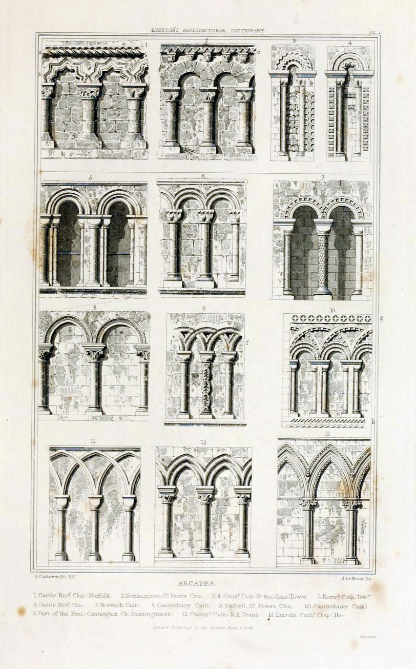 A dictionary of the architecture and archaeology of the middle ages, Plate 2, Arcades